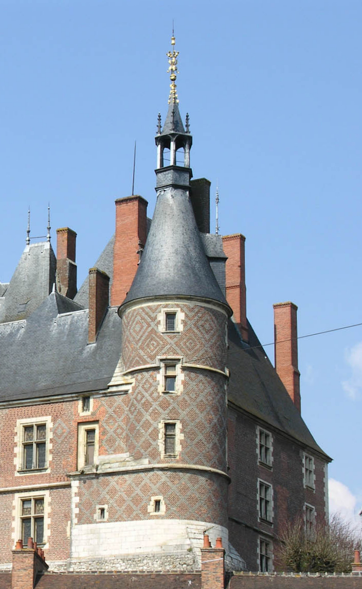 Château de Gien, southern corner tower